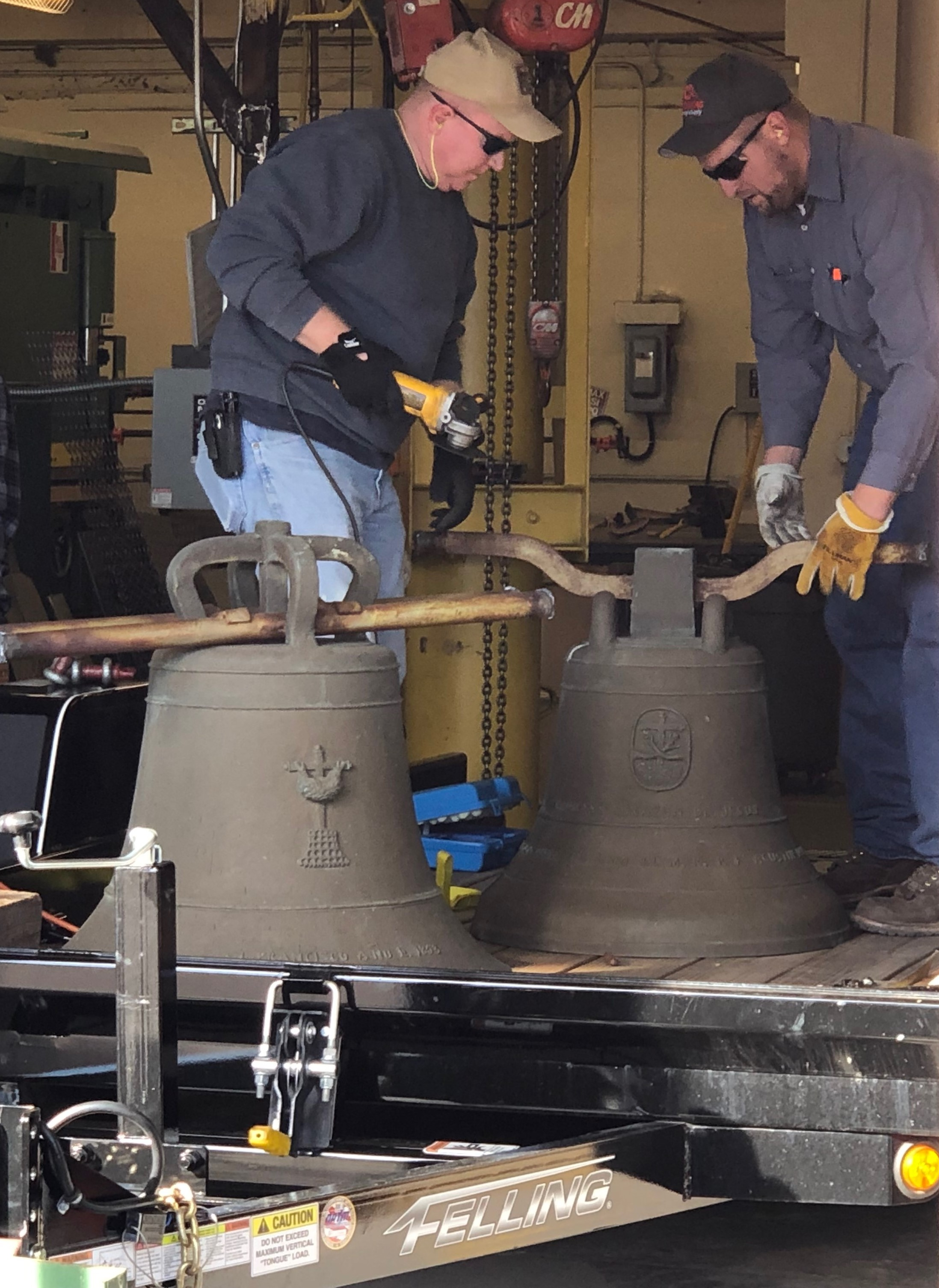 The Balangiga bells after being removed from the brick wall where they had been displayed since 1967. The bells arrived in F.E. Warren AFB, Wyoming in 1905. On 15 November 2018 these were removed for repatriation to the Philippines. Filipino: Ang mga kampana ng Balangiga matapos inalis ang mga ito mula sa pader na yari sa tisa na kung saan nakalagay ang mga ito mula noong 1967. Dumating ang mga ito sa F.E. Warren AFB, Wyoming taon 1905. Noong 15 November 2018, inalis ang mga ito upang ibalik sa Pilipinas.